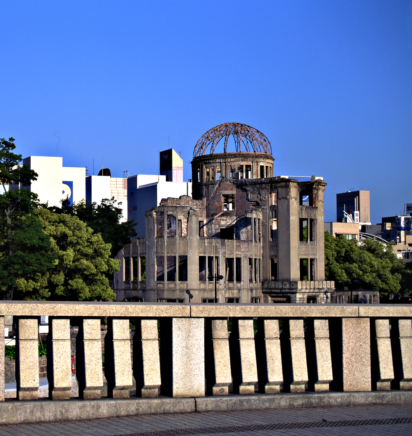 Gembaku Dome, Hiroshima, seen from Aioi Bridge in may 1999